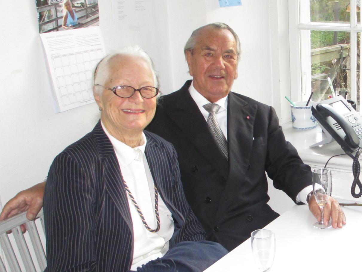 Bjørg Flognfeldt Ulfung & husband Ragnar UlfungPlace: Ulriksdal Palace Theater, Solna, Sweden